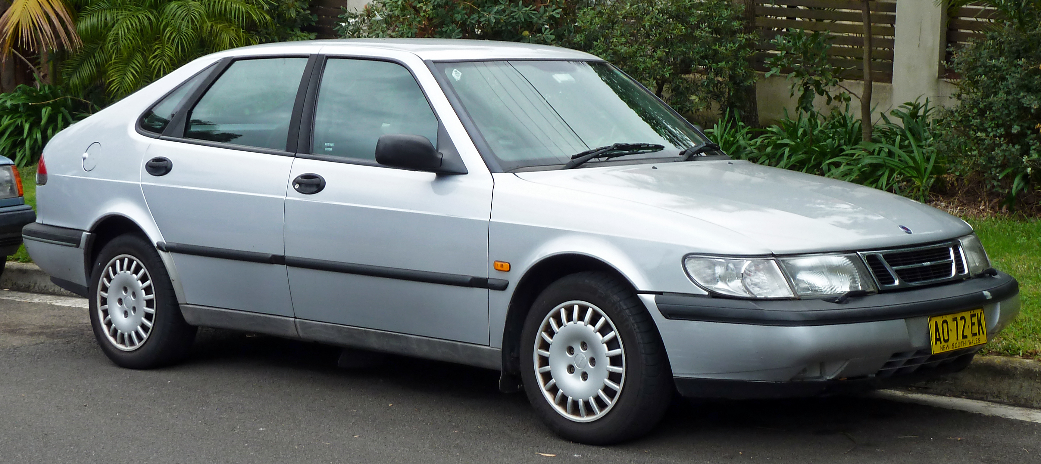 1996–1998 Saab 900 (MY97) S 5-door hatchback. Information about the MY97 update from: [1]. Photographed in Cronulla, New South Wales, Australia.